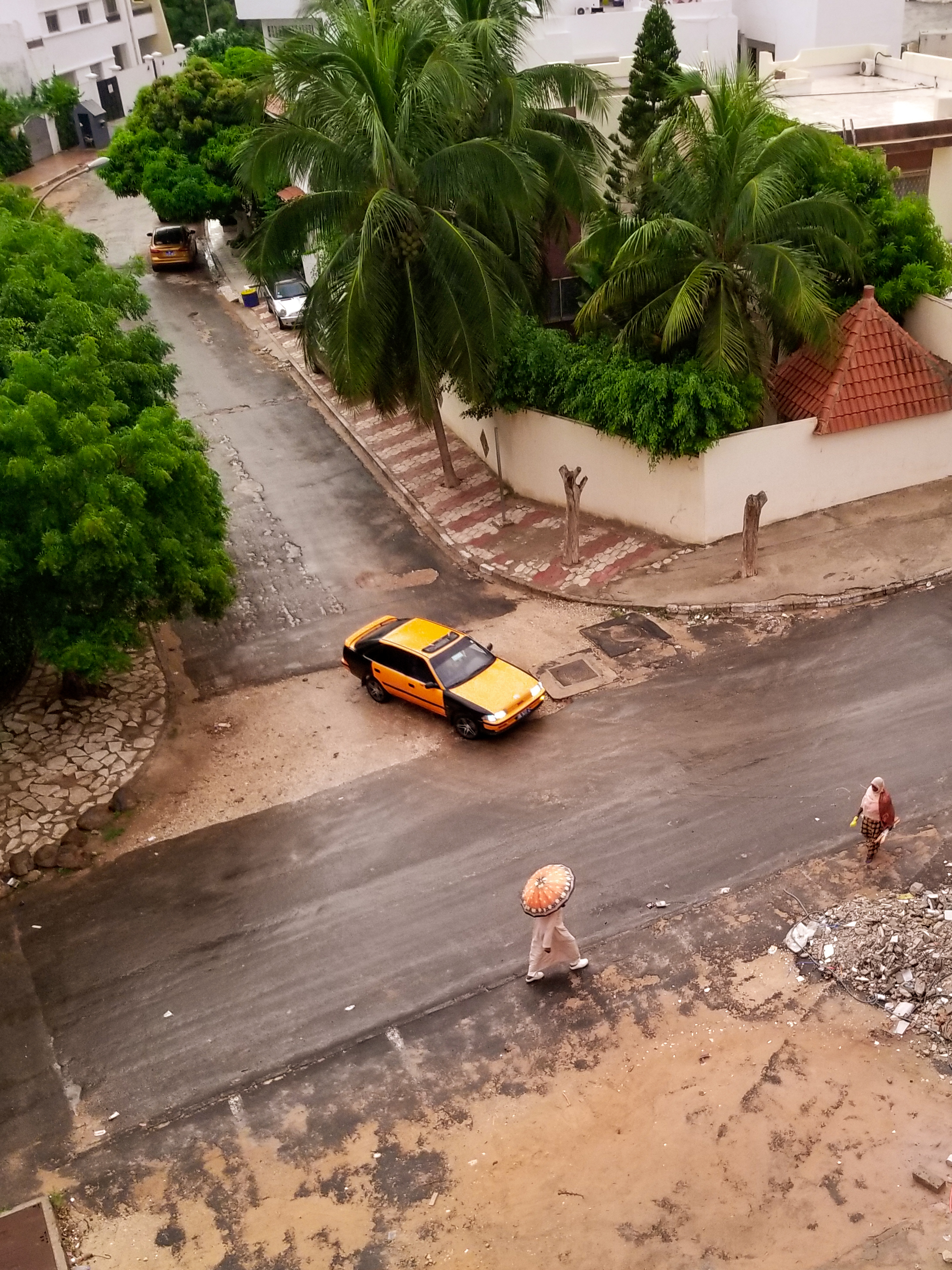 Rainy season starts from April-May and lasts till September-Oktober. People prefer not to walk under the rain, a meeting may be canceled if there is heavy rain This is an image with the theme "Africa on the Move or Transport" from: Senegal